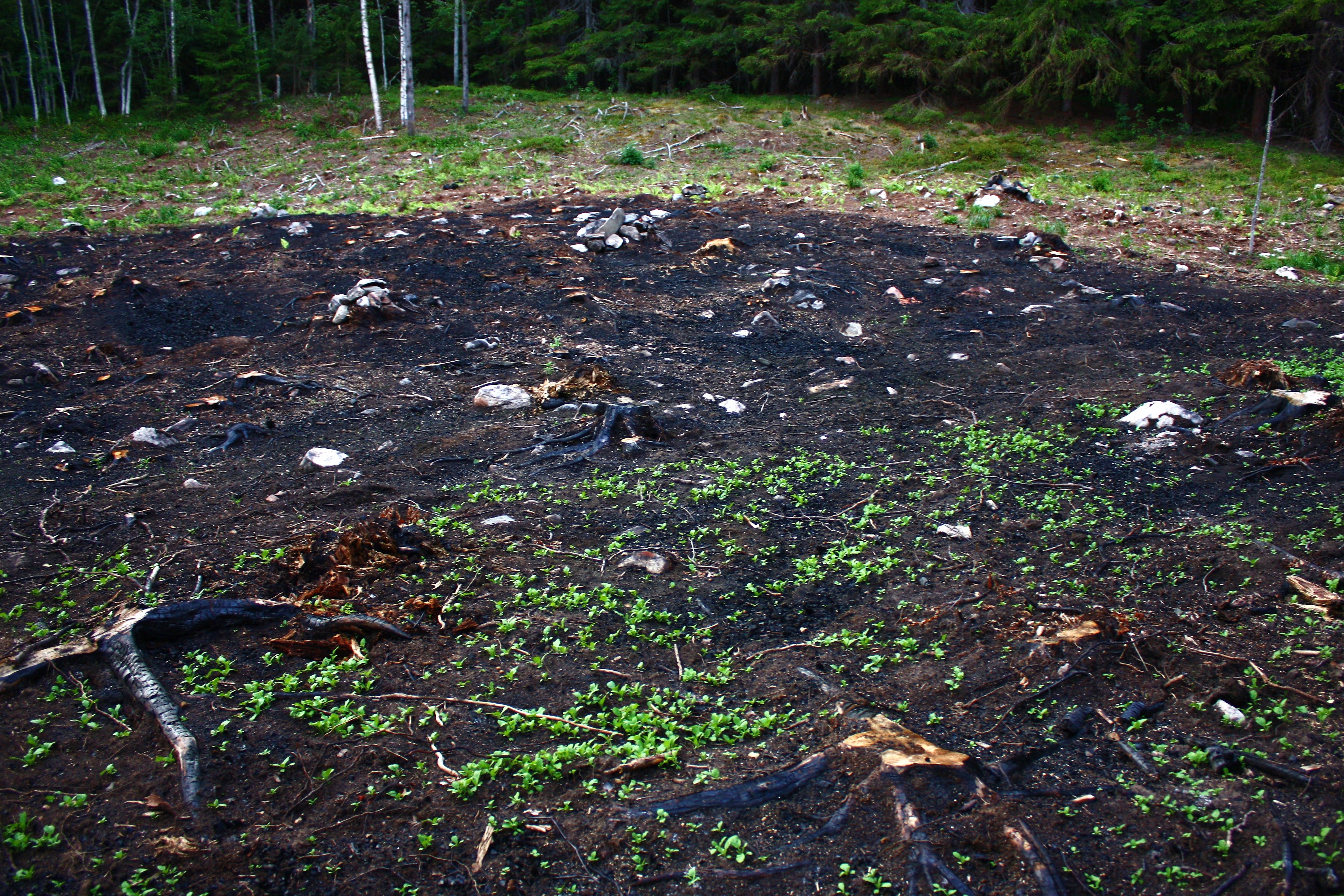 Slash-and-burn area (2013) at Telkkämäki Nature Reserve and Heritage Farm in the municipality of Kaavi in Northern Savonia, Finland. Slash-and-burn agriculture has been practised in this region from the 15th Century. Today the land in the nature reserve is still burnt annually.